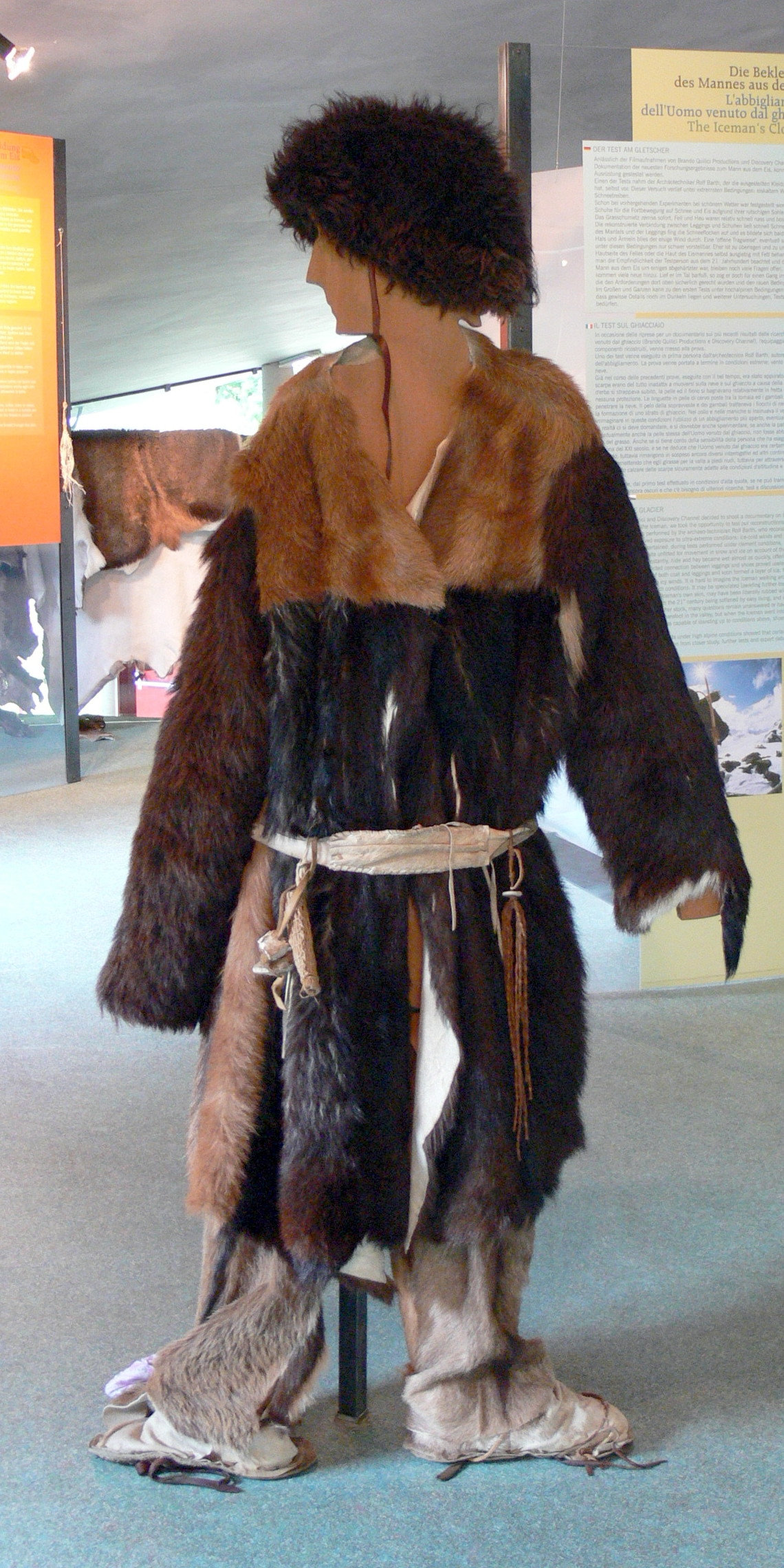 Archeoparc ( Schnals valley / South Tyrol ). Museum: Reconstruction of a neolithic clothes worn by Ötzi.